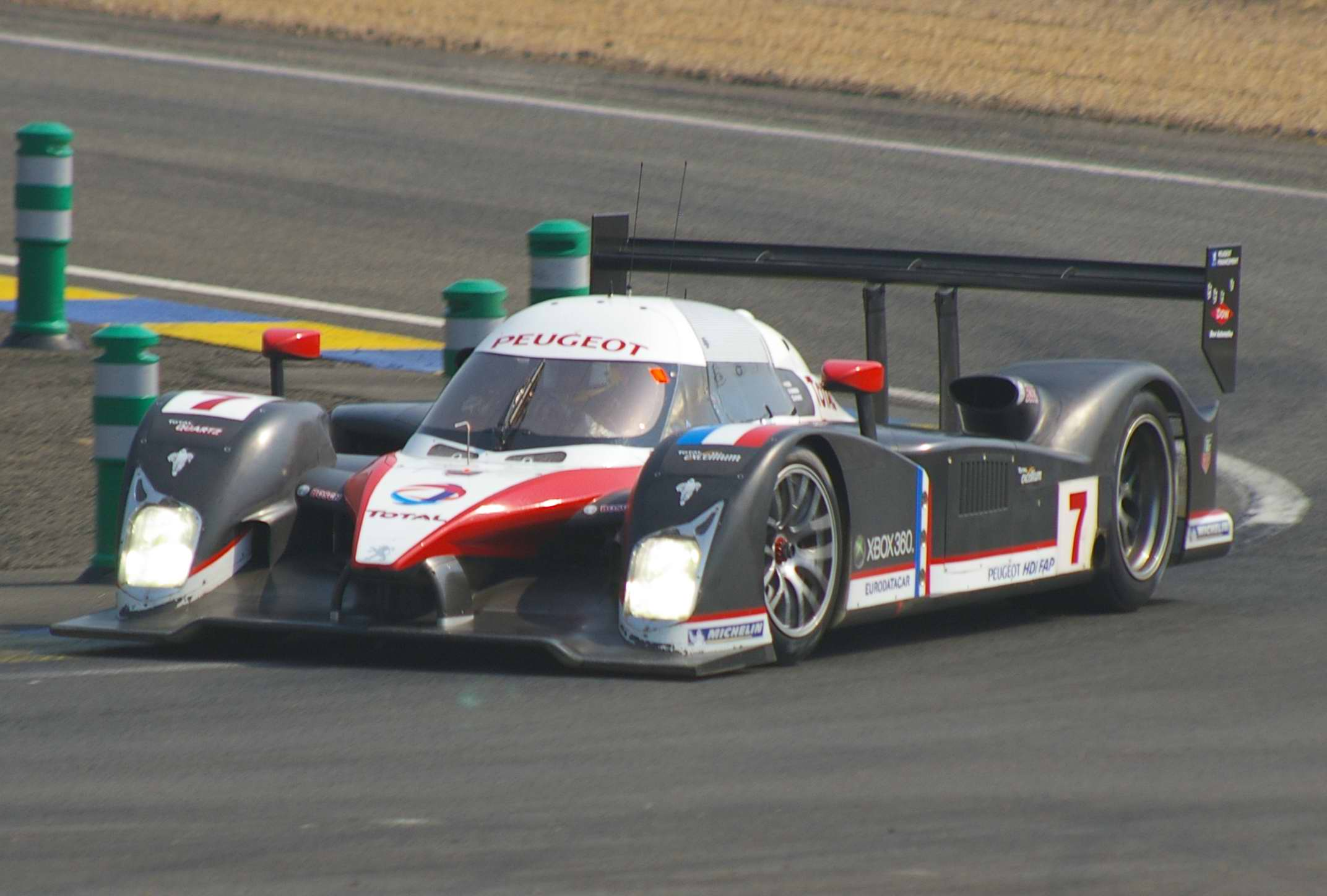 Former Formula One World Champion Jacques Villeneuve at the wheel of a Peugeot 908 sports car, during the 2007 24 Hours of Le Mans race.